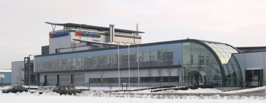 Pasching, print office of the local newspaper "Oberösterreichische Nachrichten"